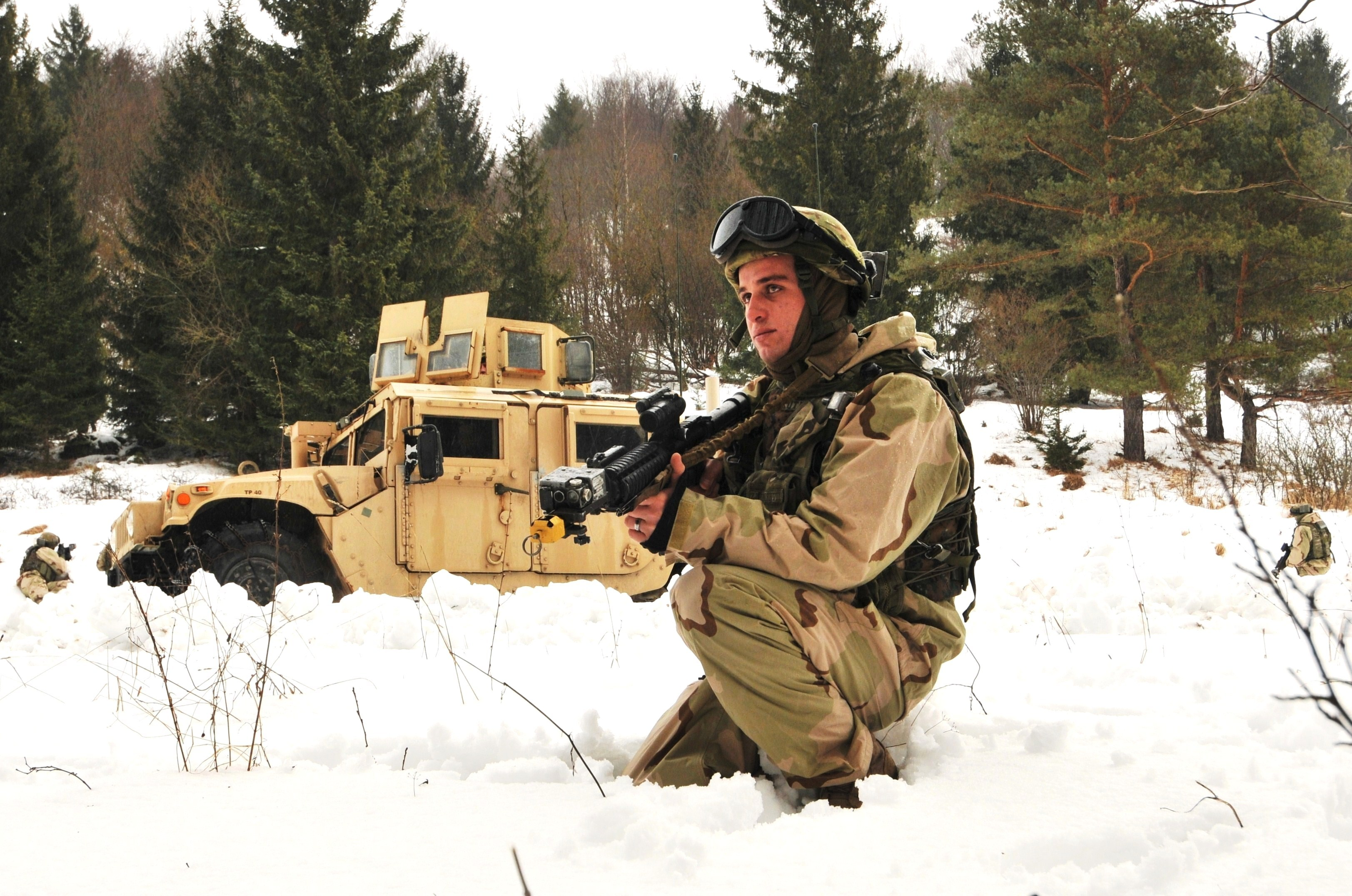 Moldovan army soldier Gegar Zakuiashuili, replicating Afghan National Army, pulls security after his convoy halted during a training exercise at the Joint Multinational Readiness Center in Hohenfels, Germany, Feb. 17, 2012. The JMRC, working with U.S. Marine Forces Europe as part of the Georgia Deployment Program-International Security Assistance Force, conducts mission rehearsal exercises for Georgian infantry battalions to assist them in preparing to deploy for operations in Afghanistan. VIPER COMBAT CAMERA USAREUR Photo by Spc. Tristan Boldent Date Taken:02.17.2012 Location:HOHENFELS, BW, DE Read more